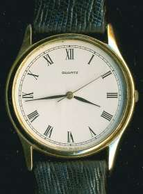 A picture of an analog watch